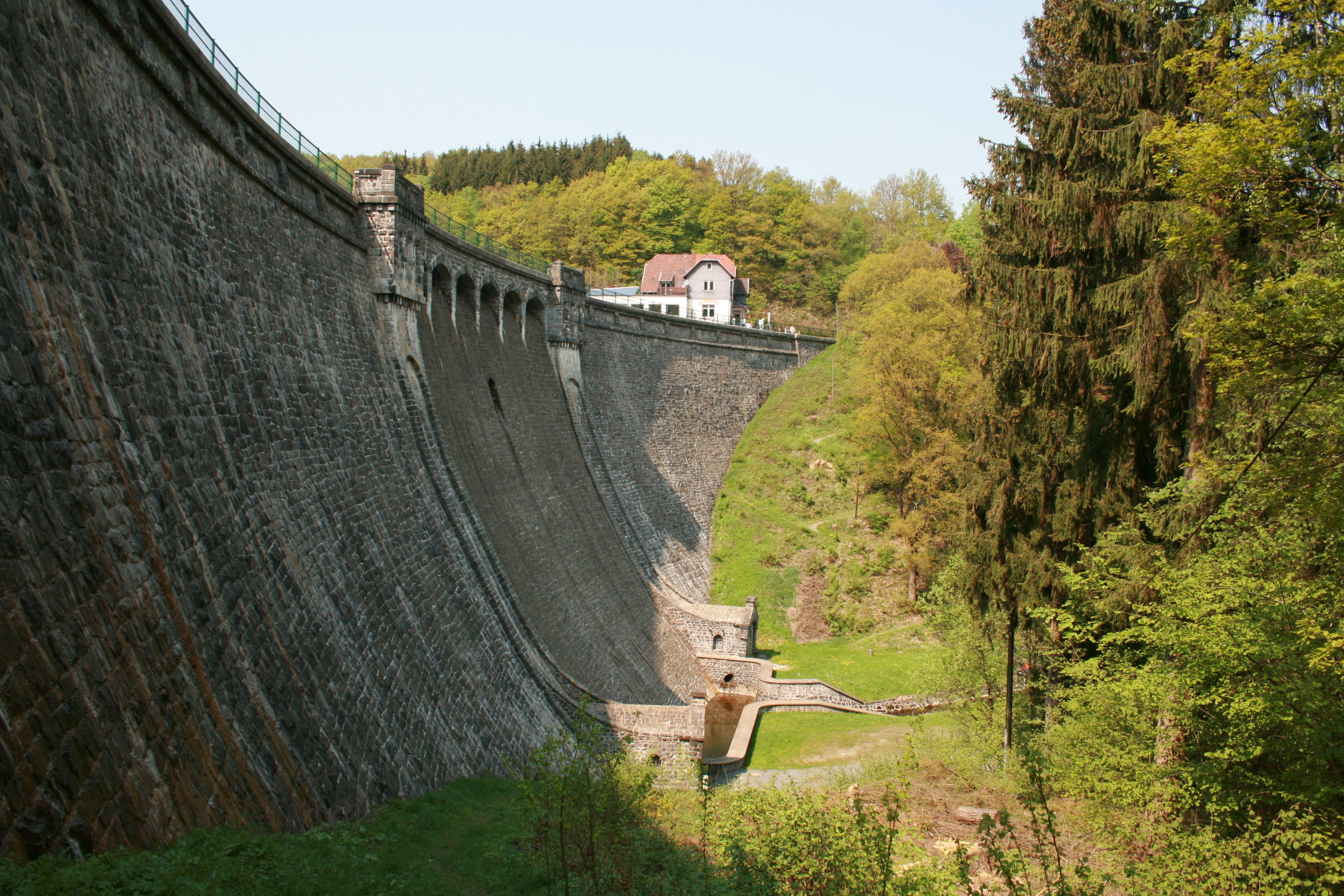 Oester dam in Plettenberg, Germany